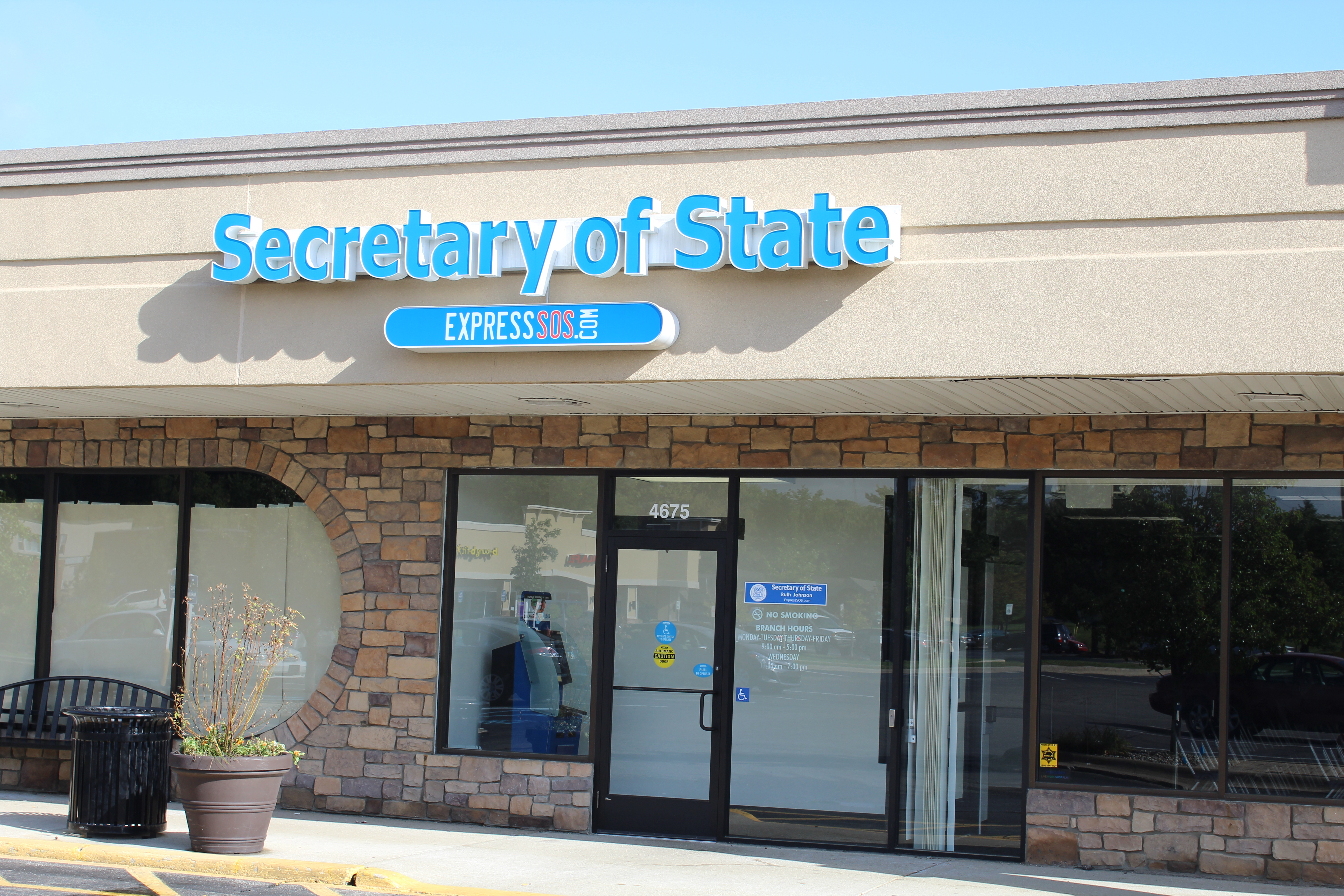 Secretary of State office, Glencoe Crossing Shopping Center, 4675 Washtenaw Avenue, Pittsfield Township (Ann Arbor), Michigan.